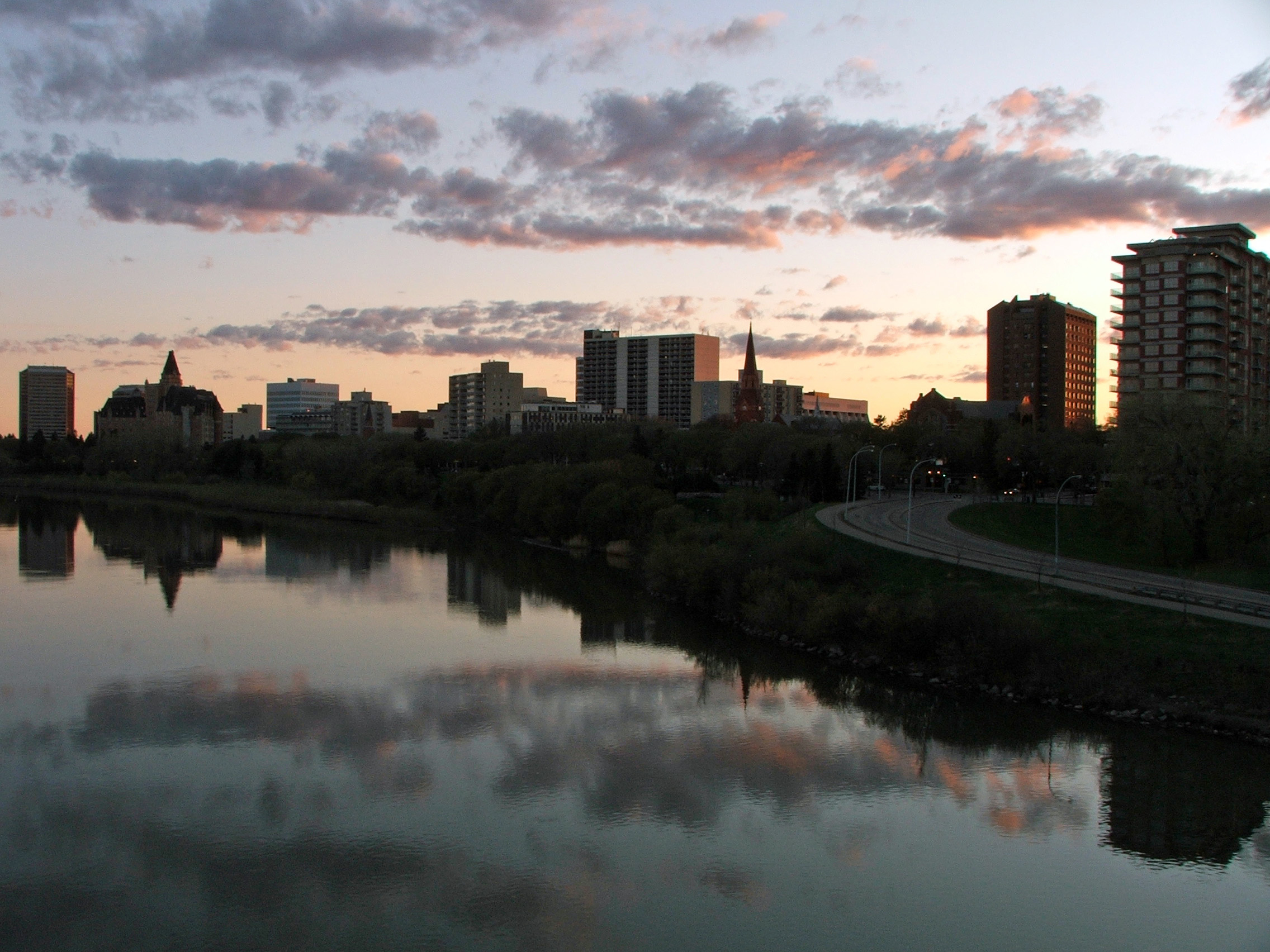 Saskatoon. Downtown skyline taken from the University Bridge., Saskatoon.